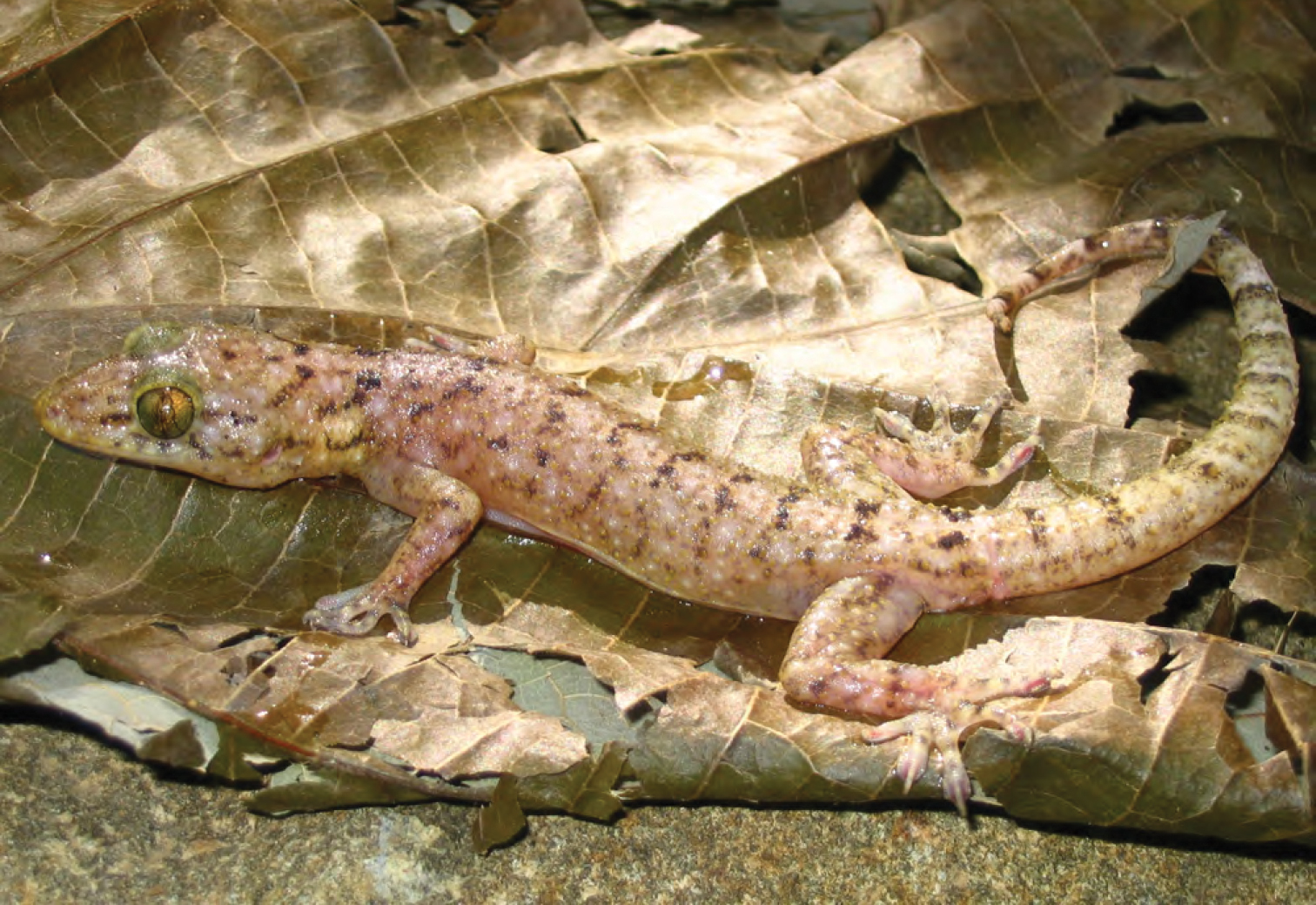 Gekko kikuchii (ACD 3077, deposited in PNM) from Barangay Binatug, San Mariano. Photo: K. M. Hesed.